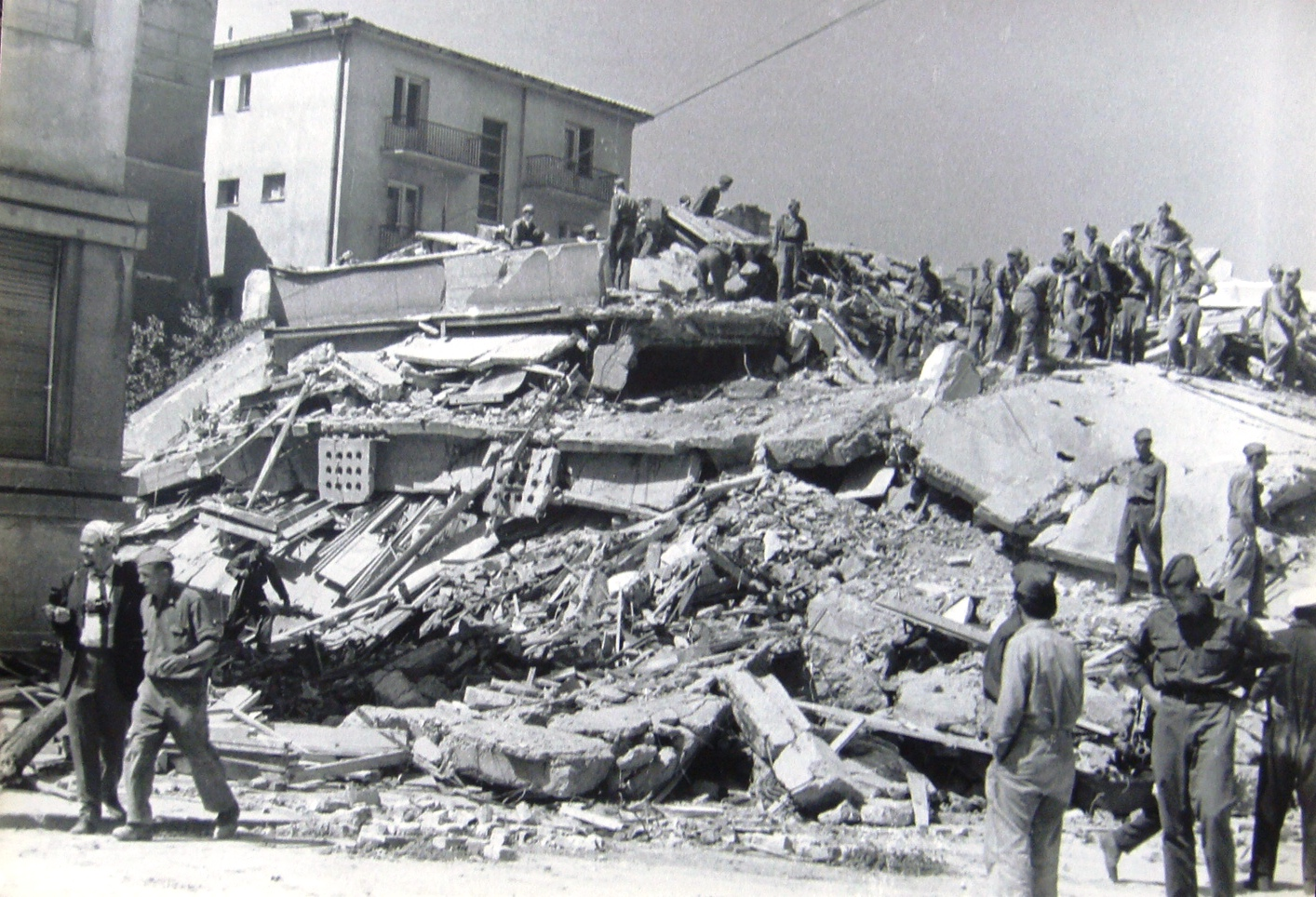 1963 Skopje earthquake: Square "Sloboda" after the earthquake. This media file is produced by Wikipedian in Residence in Category:Wikipedian in Residence at DARM in 2016.